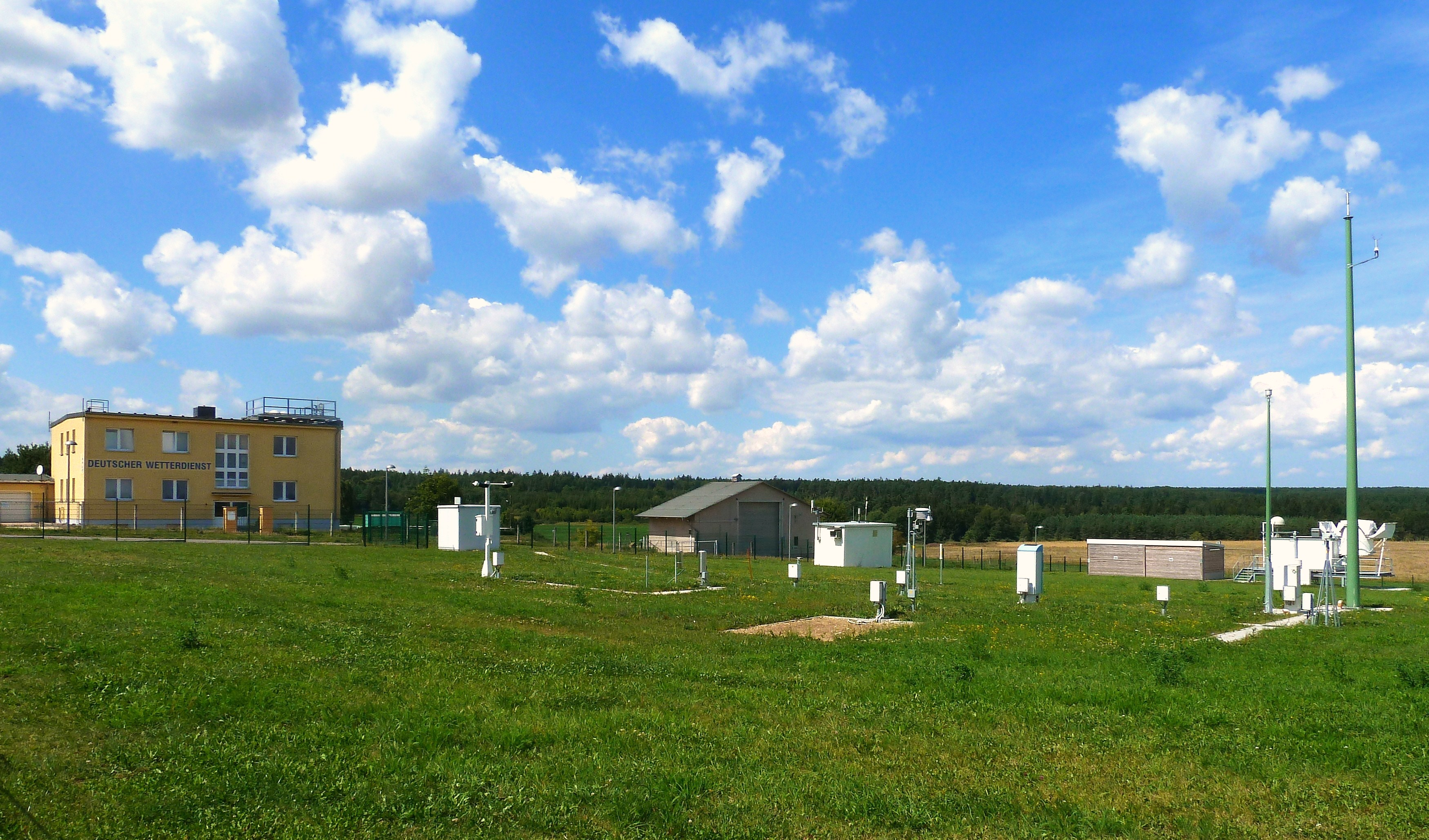 weather station in City Meiningen, germany.